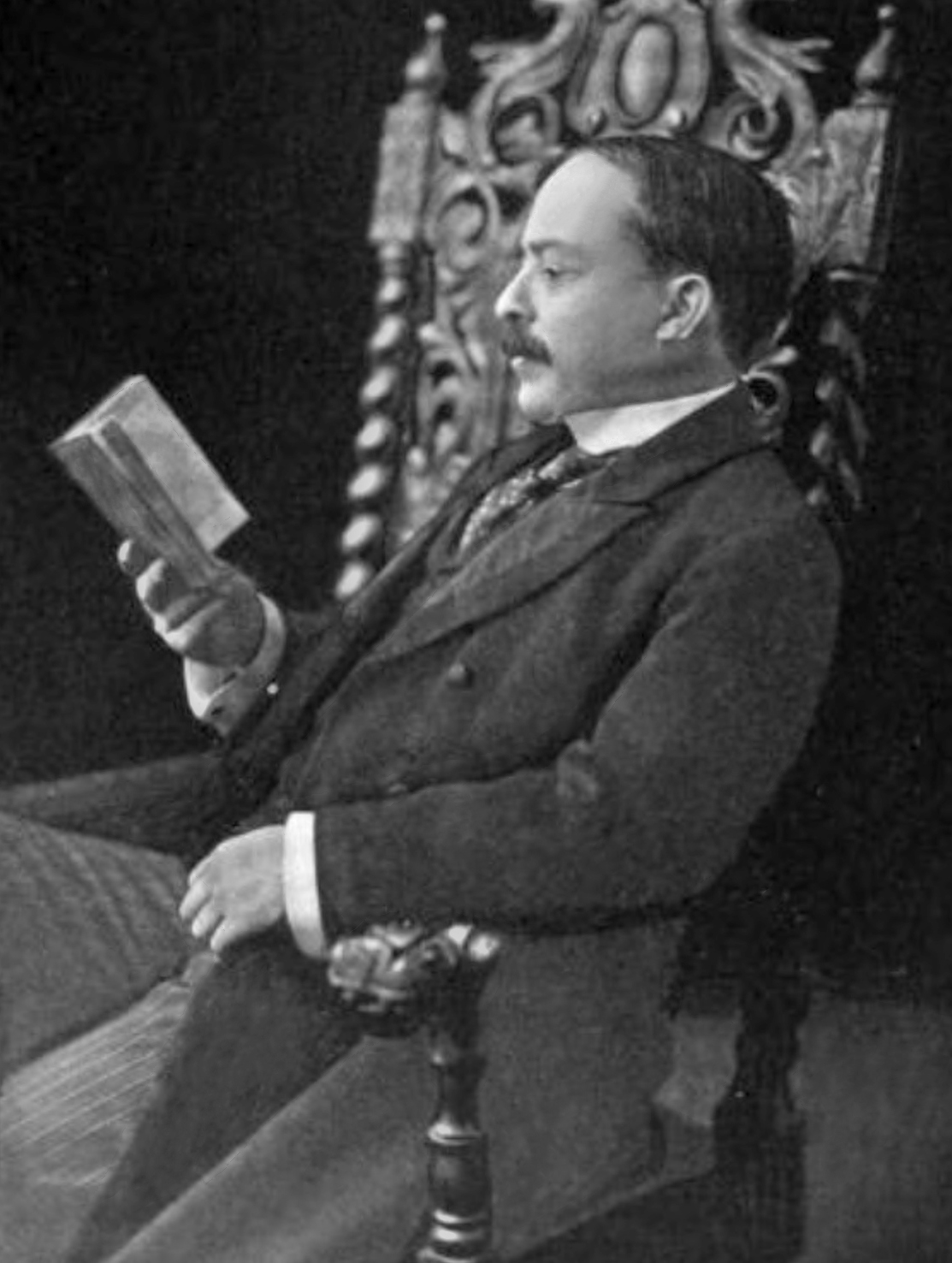 Governor Miguel Antonio "Gillie" Otero of New Mexico Territory